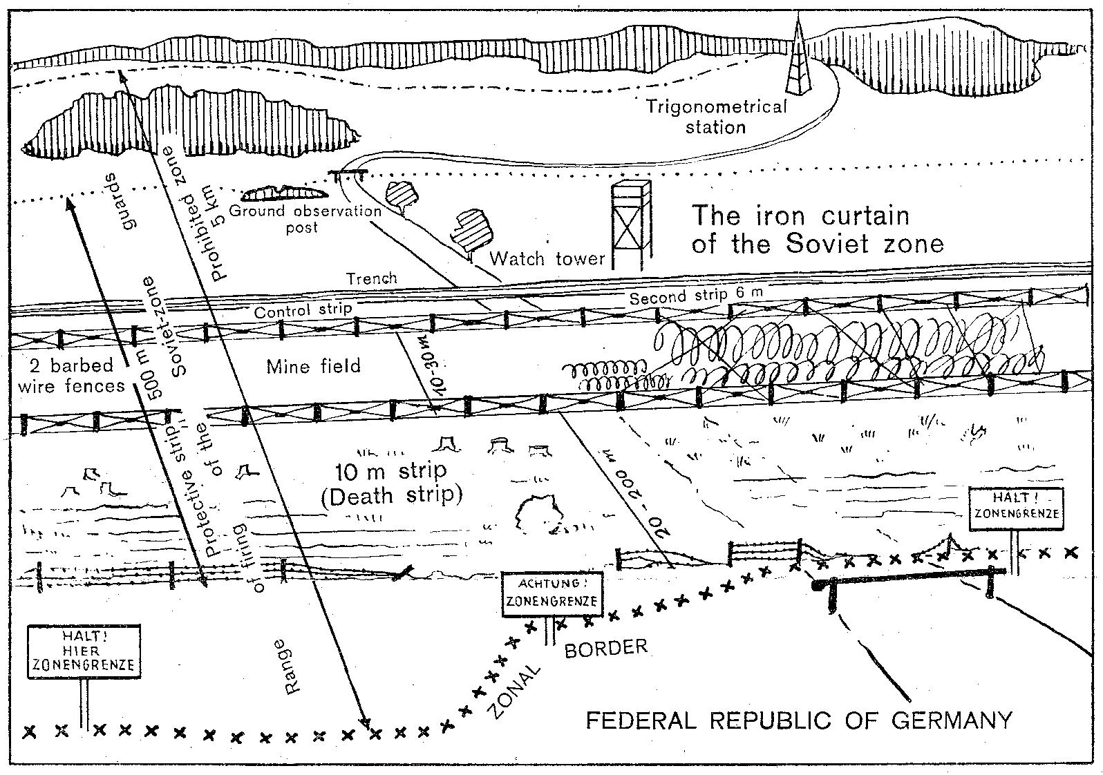 Extract from an English-language leaflet given to visitors to the Inner German border by West German border guards in Lower Saxony, depicting the configuration of the border as it was in the early 1960s.Schematic diagram depicting the inner German border system of the 1960s as seen from West Germany. The border cuts across a road which formerly linked east and west. In the foreground, Federal Republic of Germany territory with signposts marking the zonal border and a road ending in a gate just before the zonal border; a variable distance behind the zonal border, in Soviet zone territory, there is first a fence, then a 20- to 200-metre cleared area, beginning with the 10-metre death strip; after the cleared area, there is barbed-wire fencing, then a mine field with a width of 10–30 metres, parts of it covered with wires, then more barbed-wire fencing, a 6-metre control strip, a trench, then another strip of territory including a ground observation post and a watchtower behind the trench, bounded by a dotted line and a barrier on the road which resumes its course on the eastern side, beyond the mine field. Deeper in East German territory, there are woods and a trigonometrical station. The width of the 500-metre protective strip is marked by a double-headed arrow extending from the westernmost end of the death strip to the easternmost end of the territory containing the ground observation post and watch tower. The firing range of the guards extends from the zonal border itself to just beyond the end of the territory containing the ground observation post and watchtower. The prohibited zone is marked as having a width of 5 kilometres, also using a double-headed arrow, extending from the zonal border in the foreground to a line behind the trigonometrical station. The whole border arrangement is marked as "The iron curtain of the Soviet zone".